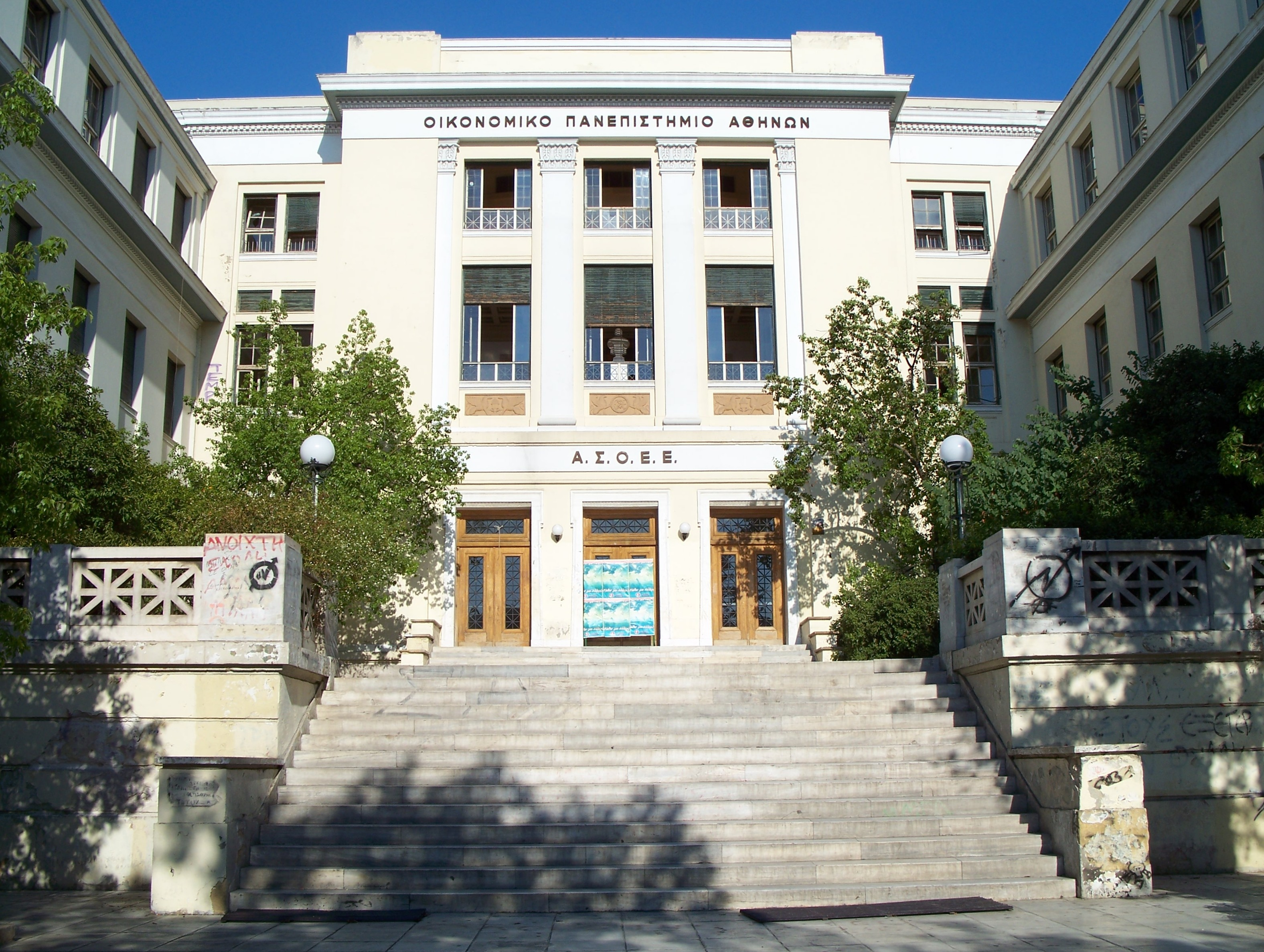 The mainbuilding of the Economical University of Athens. Located in downtown Athens